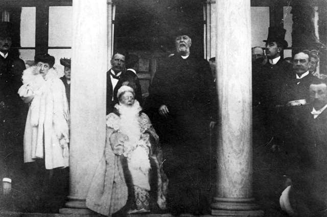 Oscar II of Sweden speaking at the stairs of Rosendal Palace in Djurgården during the dissolution of the union between Norway and Sweden in 1905. Sophia of Nassau to the left of the king and to the left of her is Prince Carl, Duke of Västergötland and the crying Princess Ingeborg of Denmark. To the right is Prince Gustaf Adolf.